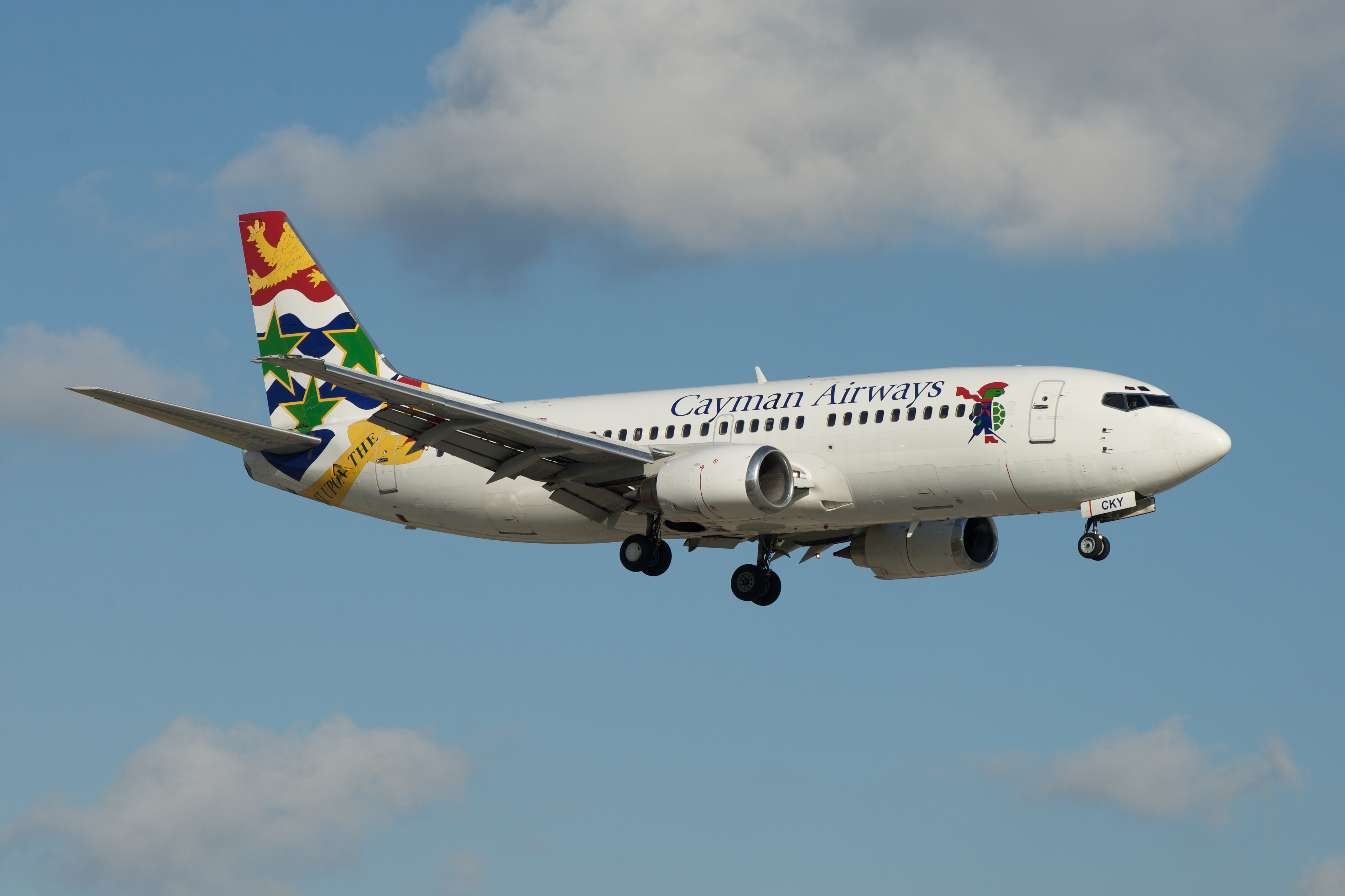 Short Final, MIA